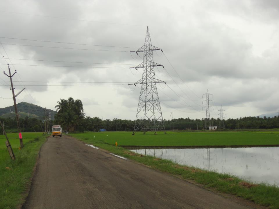 This road leads to Ayikudi